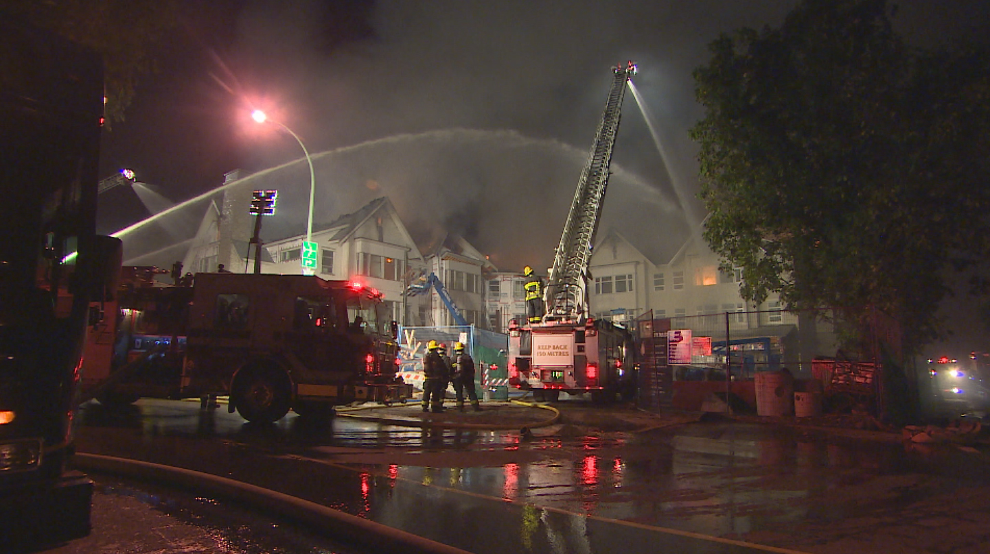 4th Alarm Structure Fire At Granville Seniors Ceter